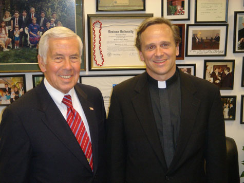 Senator Richard Lugar with Rev. John Jenkins, C.S.C., who will succeed Rev. Edward A. “Monk” Malloy, C.S.C., as the president of the University of Notre Dame in July.